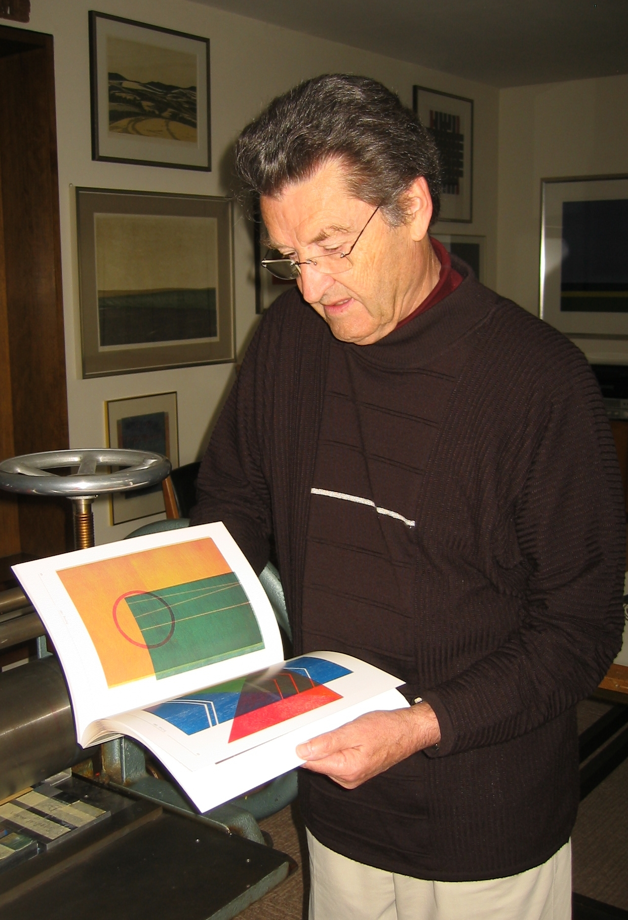 Klaus Herzer in his atelier